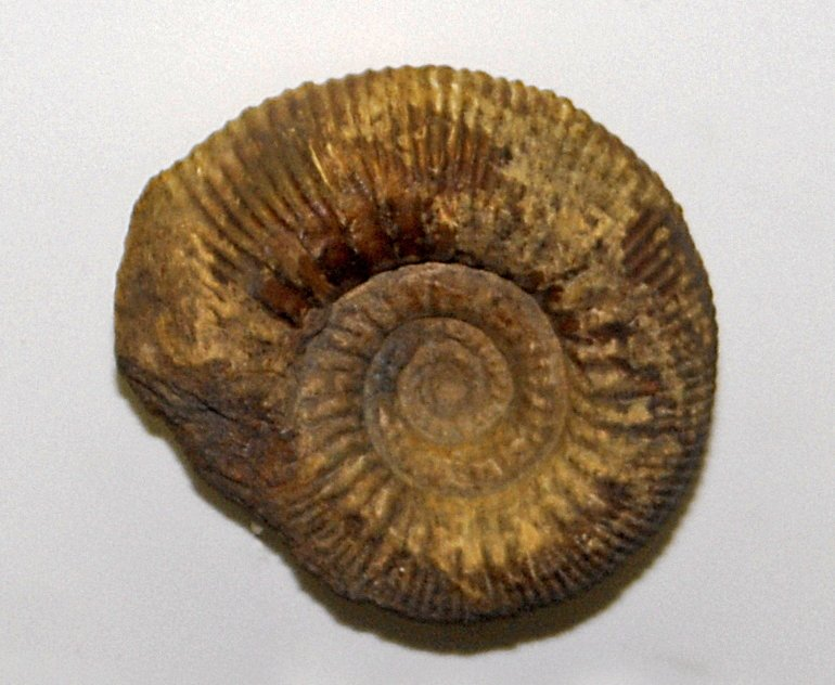 Crop of file in filename